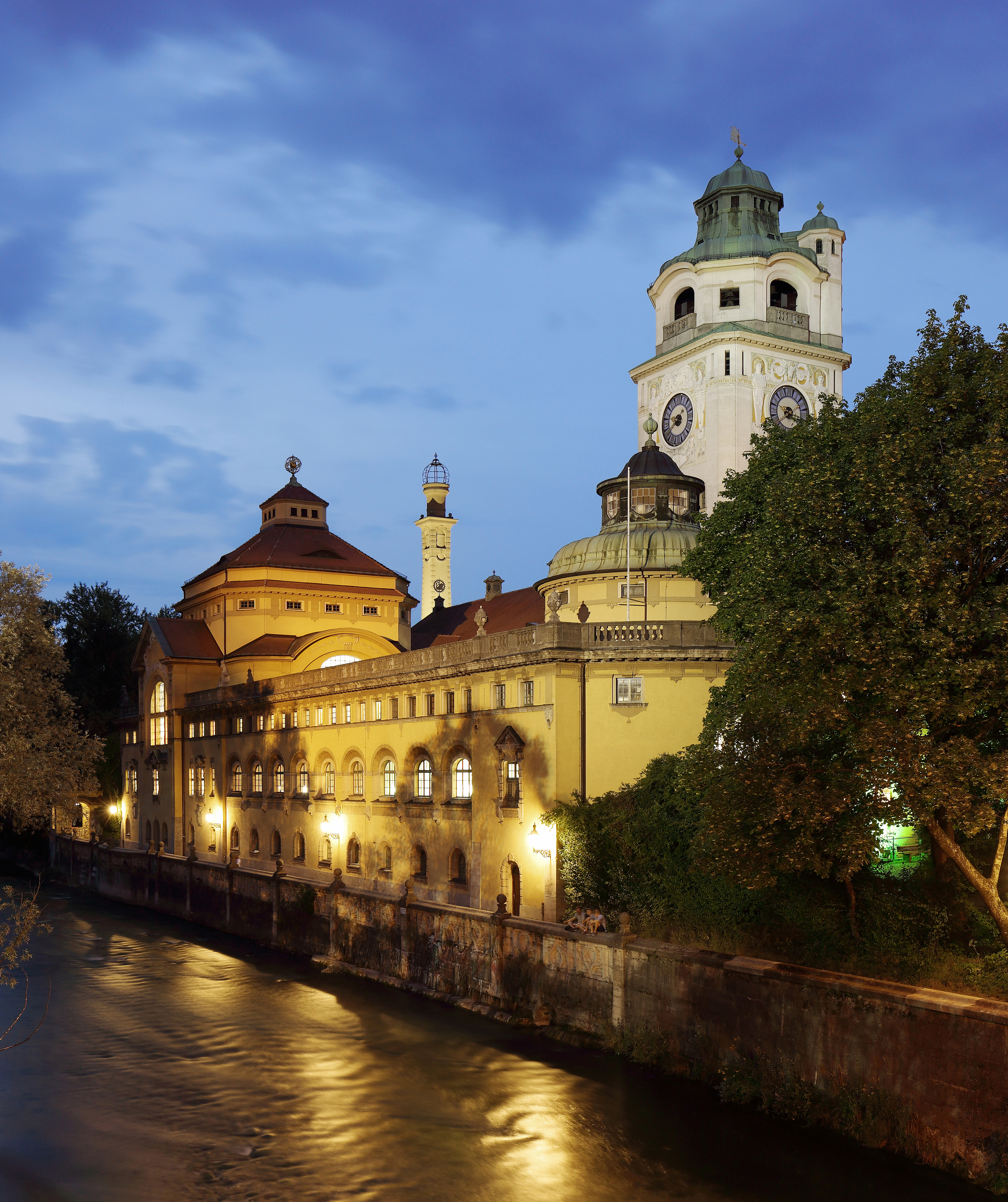 Müllersches Volksbad, Munich, at dusk. The natatorium was built from 1897 to 1901 and is famous for its Baroque Revival/Jugendstil architecture. Upon completion, it was the largest and most expensive indoor swimming pool in the world.